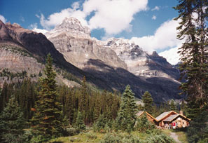 Elizabeth Parker Hut - Scenic View; Mount Huber (3368 m), sub-peak of Mount Victoria, in the background. Yoho National Park, British Columbia, Canada.